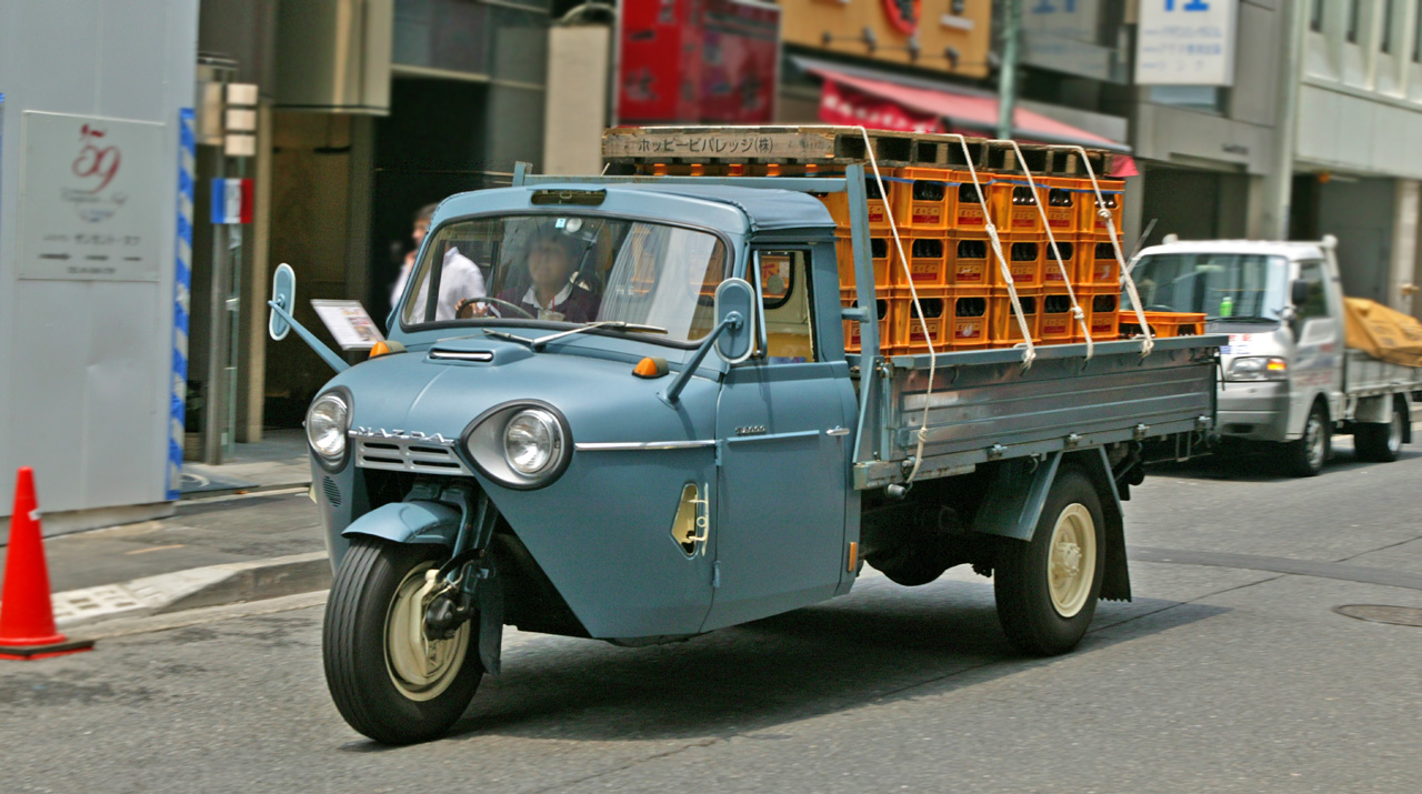 Mazda T2000 three wheeler